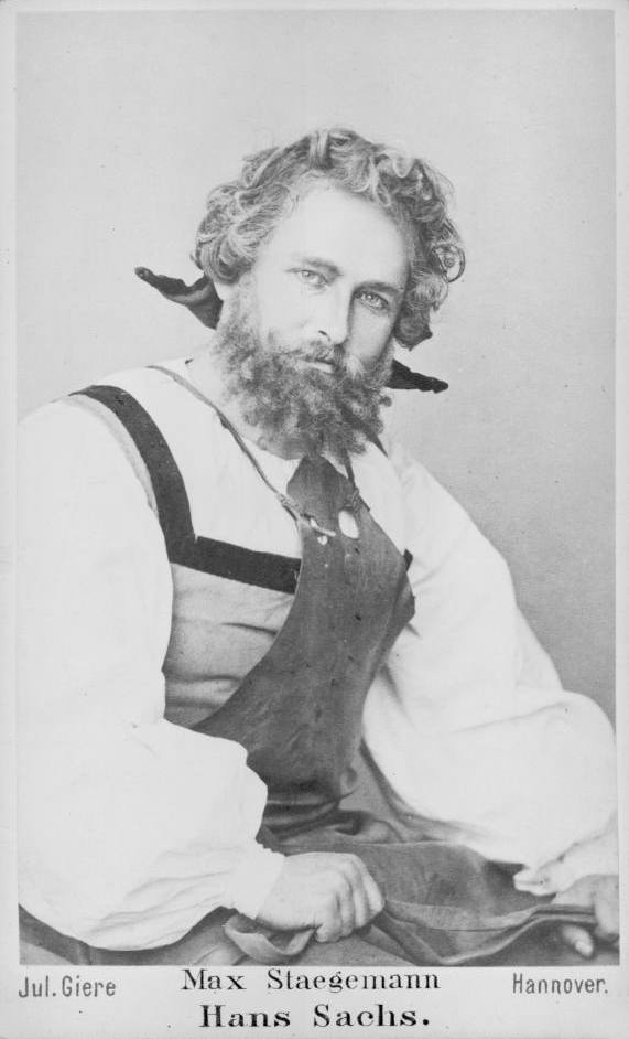 German opera singer and director Max Staegemann (1843-1905) as Hans Sachs in Richard Wagner's 'Die Meistersinger von Nürnberg'